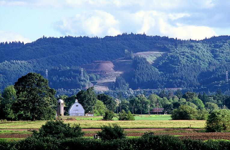 Farmland on Sauvie Island, looking west